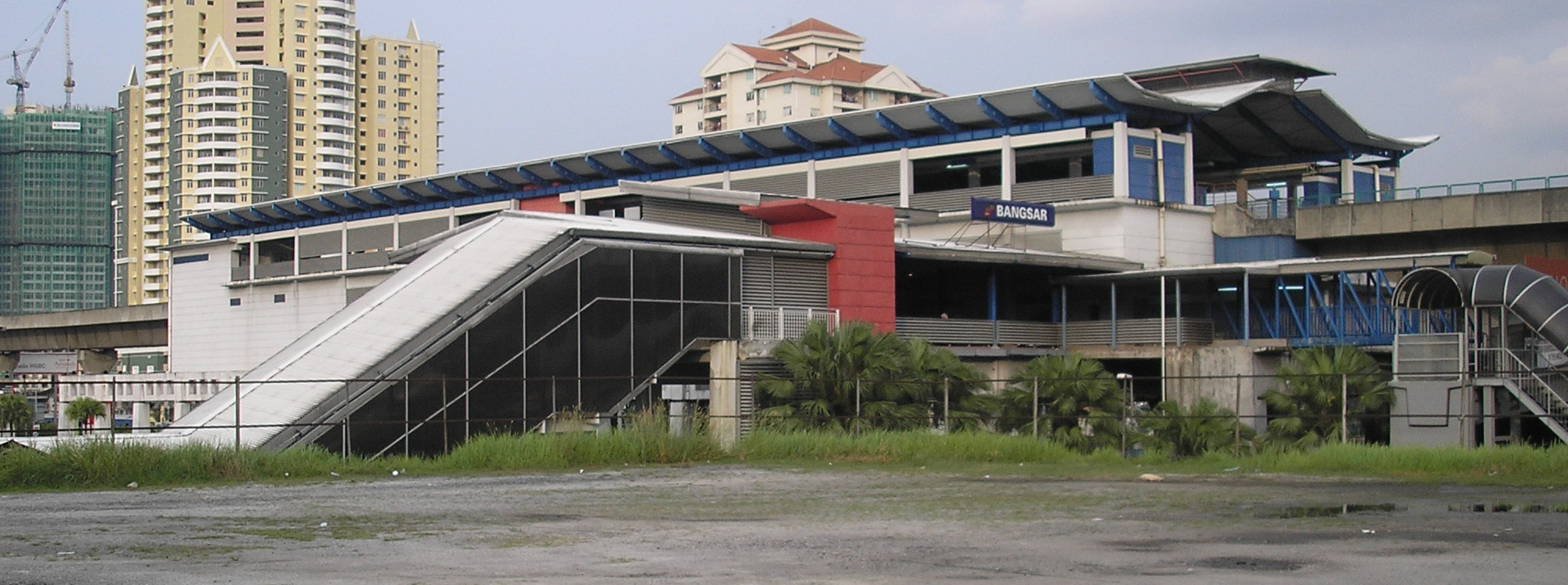 The exterior of the Bangsar LRT station (Kelana Jaya Line), Kuala Lumpur, Malaysia. The site from which this photograph was taken is now a construction site.